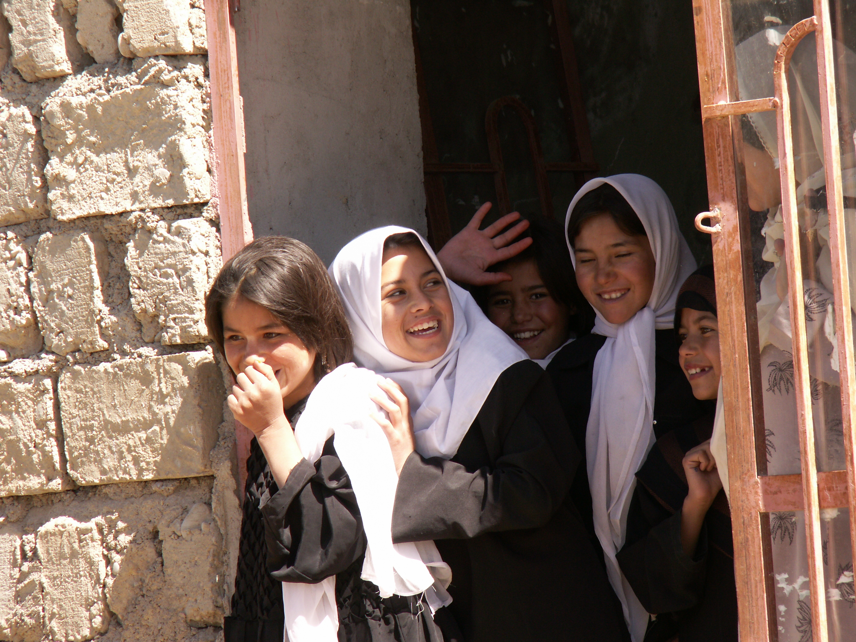 Girls at school, Chagcharan, Ghowr province. May of 2007. Photo by Corporal Vilius Džiavečka, Lithuania.